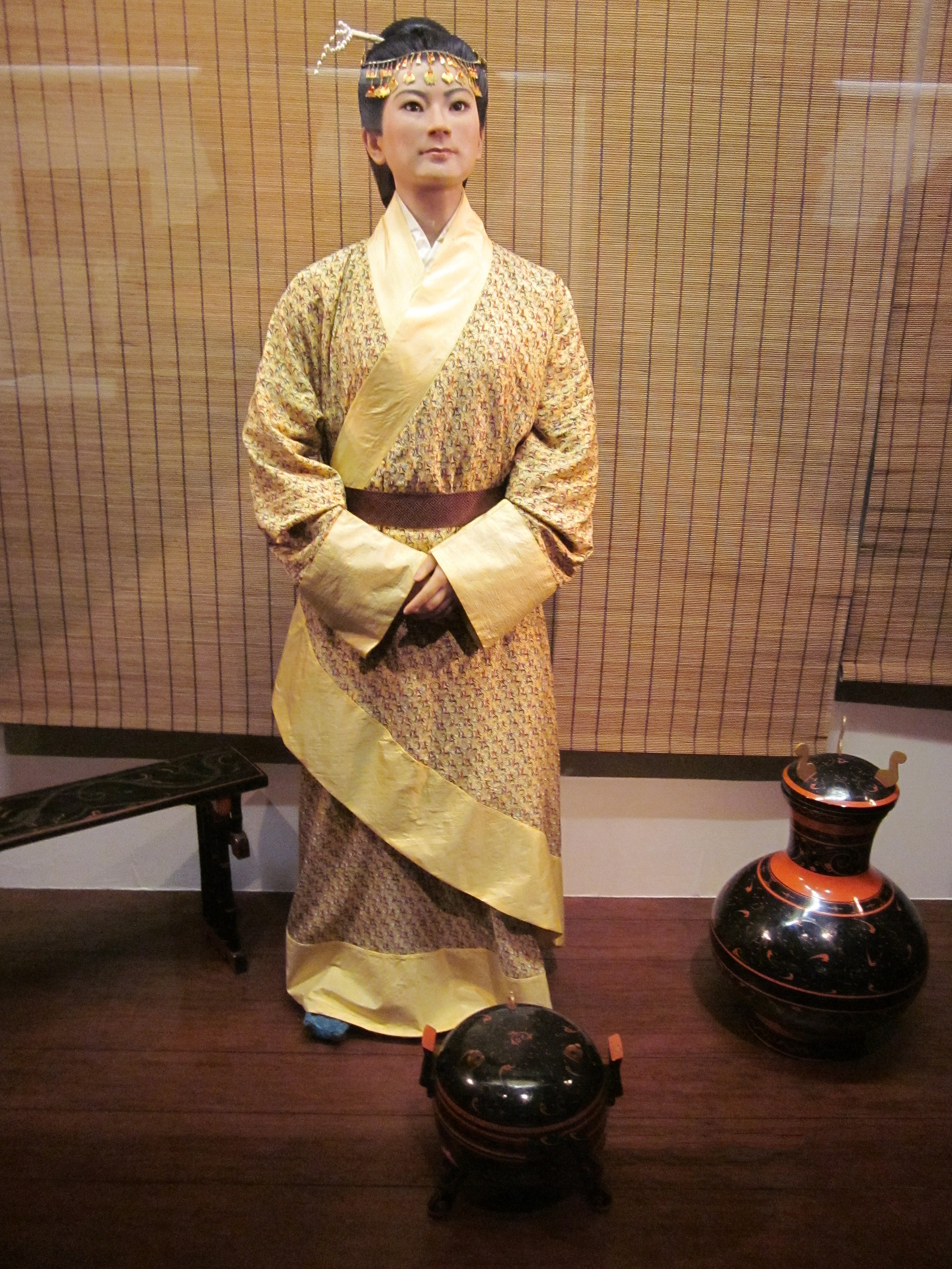 Xin Zhui (Chinese: 辛追), also known as lady Dai, was the wife of the Marquess Li Cang (利蒼) (d. 186 BCE), chancellor for the imperial fiefdom of Changsha during the Han Dynasty. This is a reconstruction of her.